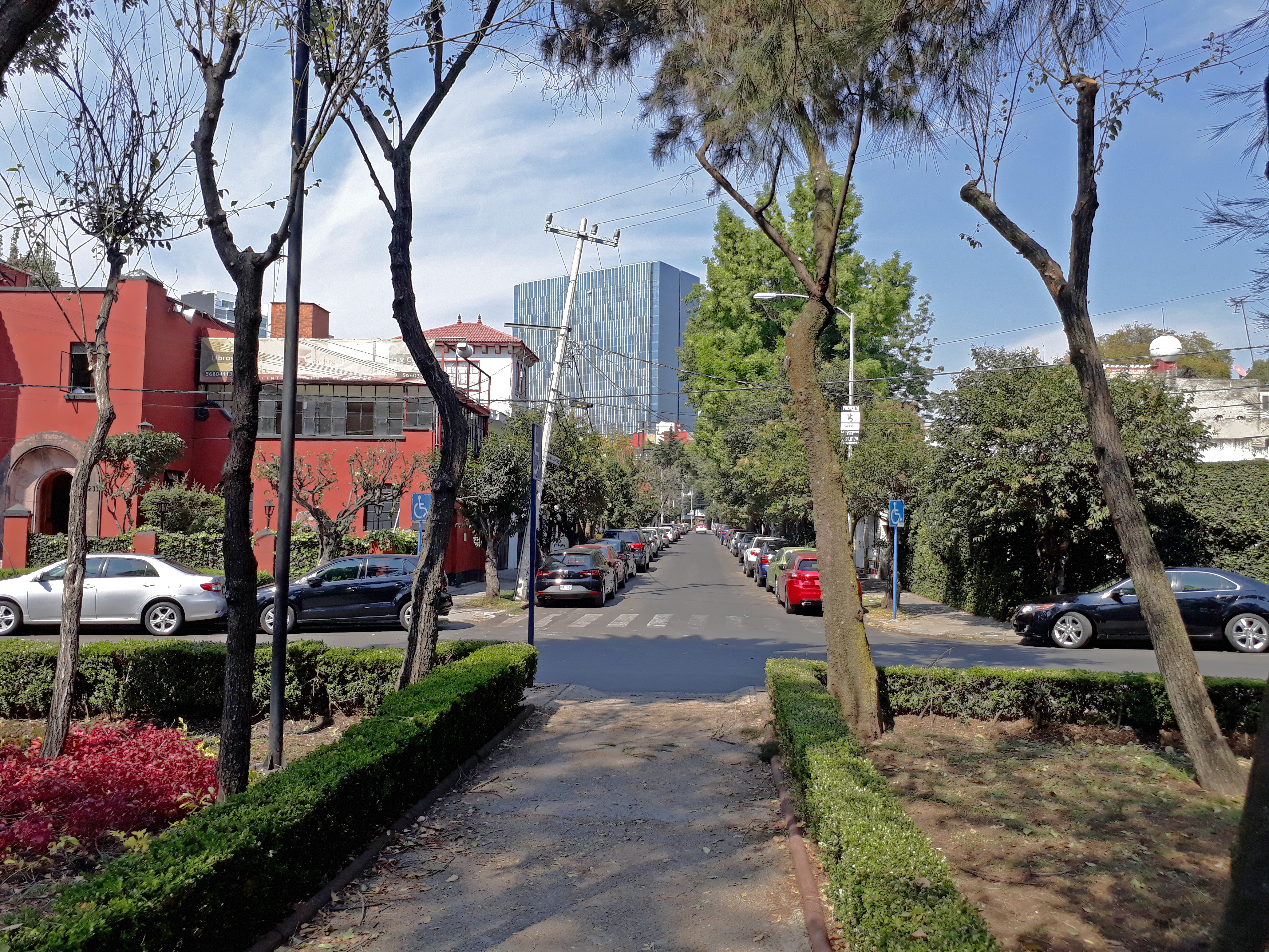 Valverde roundabout's park in Guadalupe Inn, souther Mexico City.